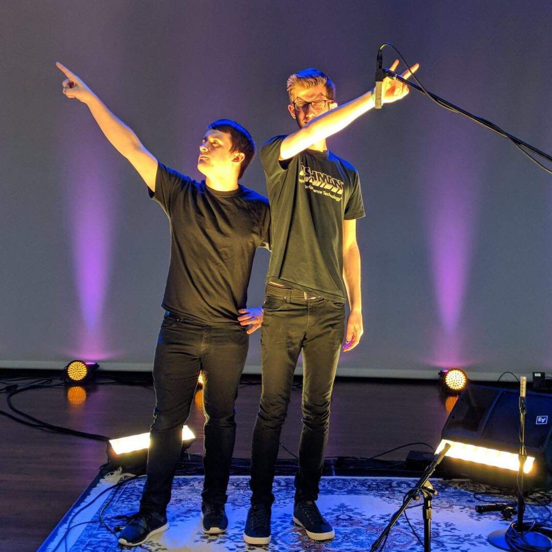 Two stagehands after setting up various lighting, sound, and microphone equipment before a concert